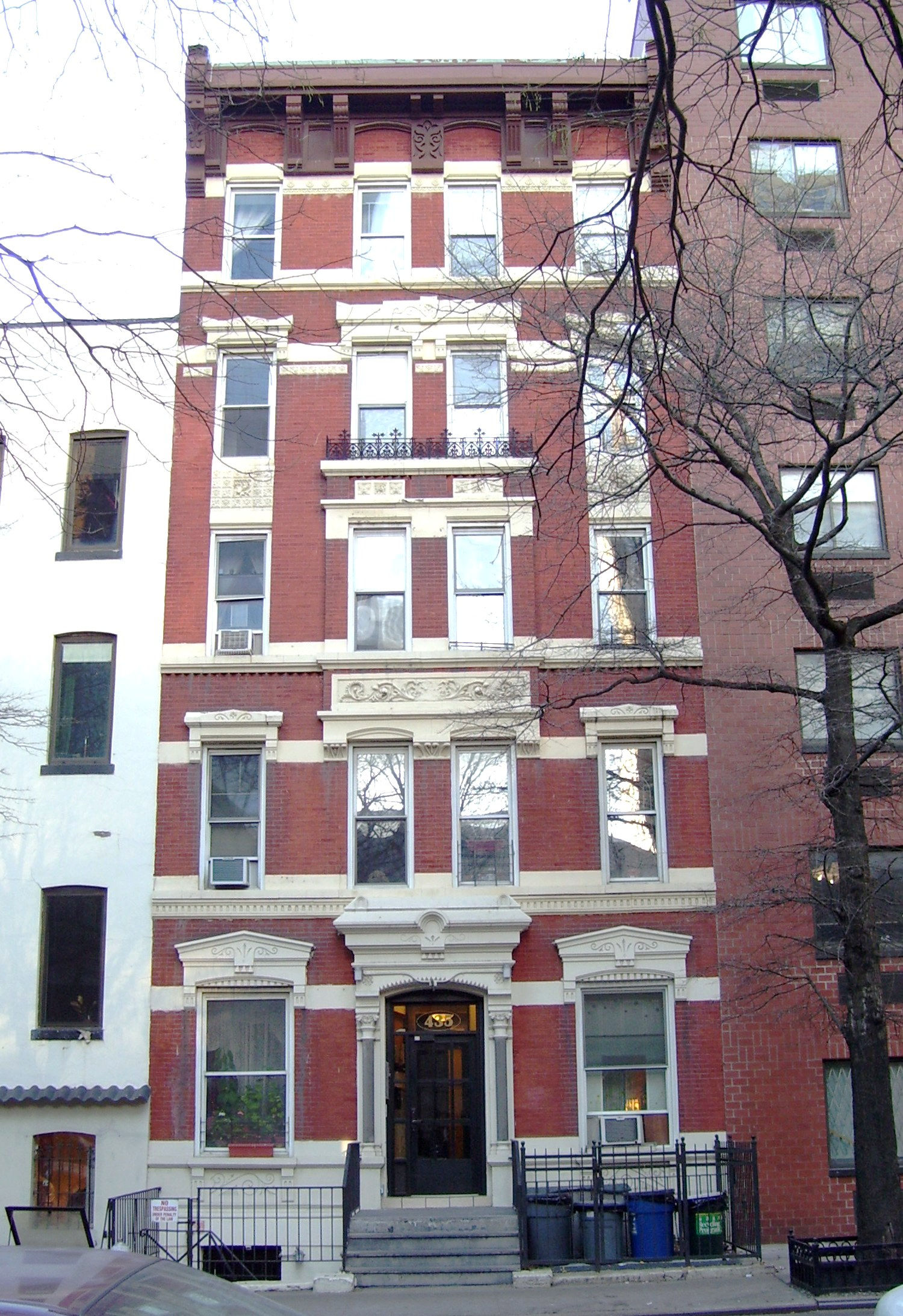 435 West 43rd Street, between 9th and 10th Avenues in the Hell's Kitchen neighborhood of Manhattan, New York City.